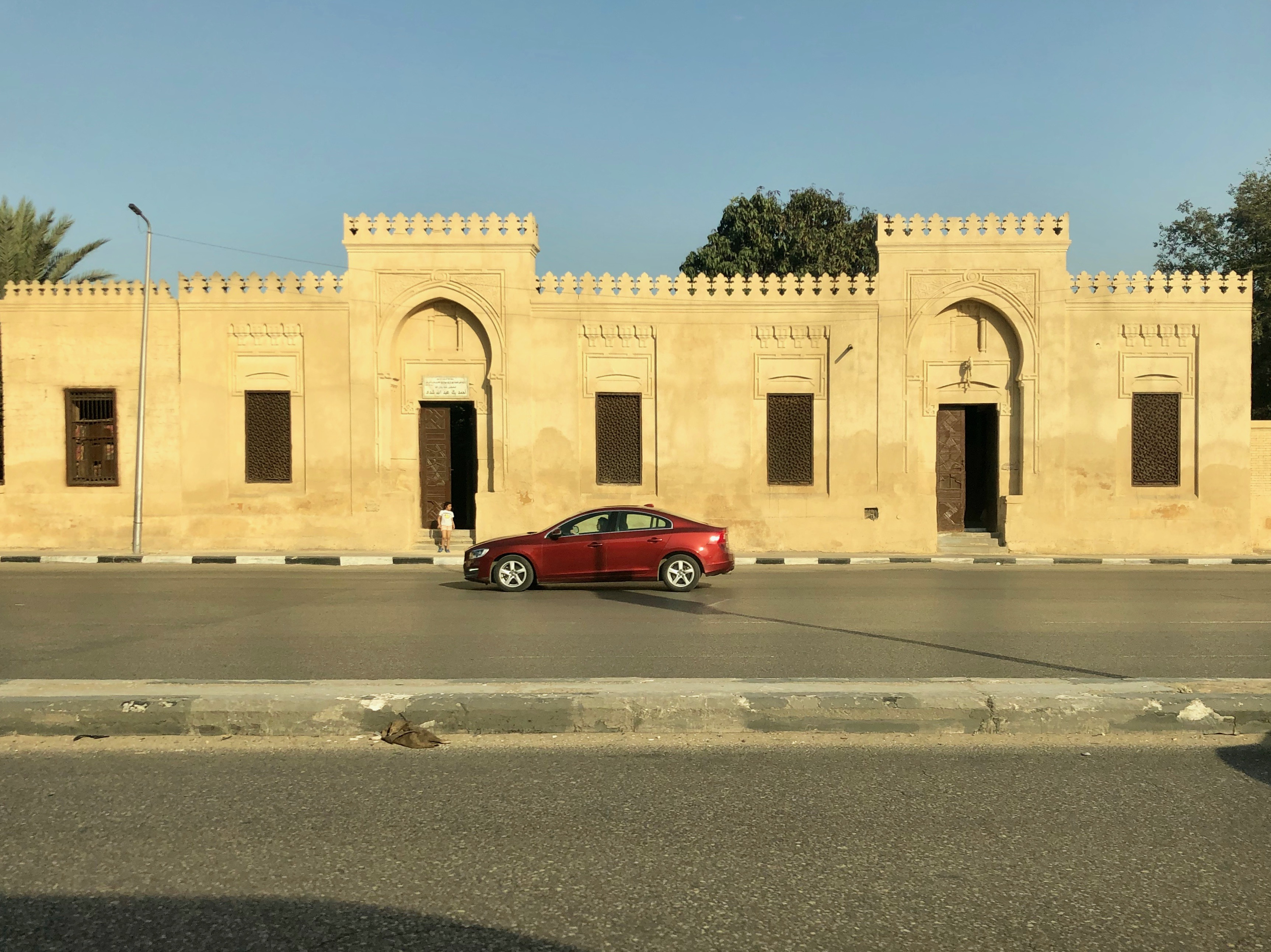 Cairo (al-Qahira), capital of Egypt